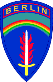 US Army Berlin Shoulder Sleeve Insignia